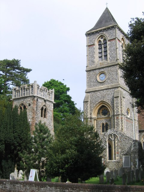 Church towers at Thorpe St Andrew, Norfolk. On the left is the 15th-century tower of the ruined former parish church. On the right is the Gothic revival tower added to the new parish church in 1882.